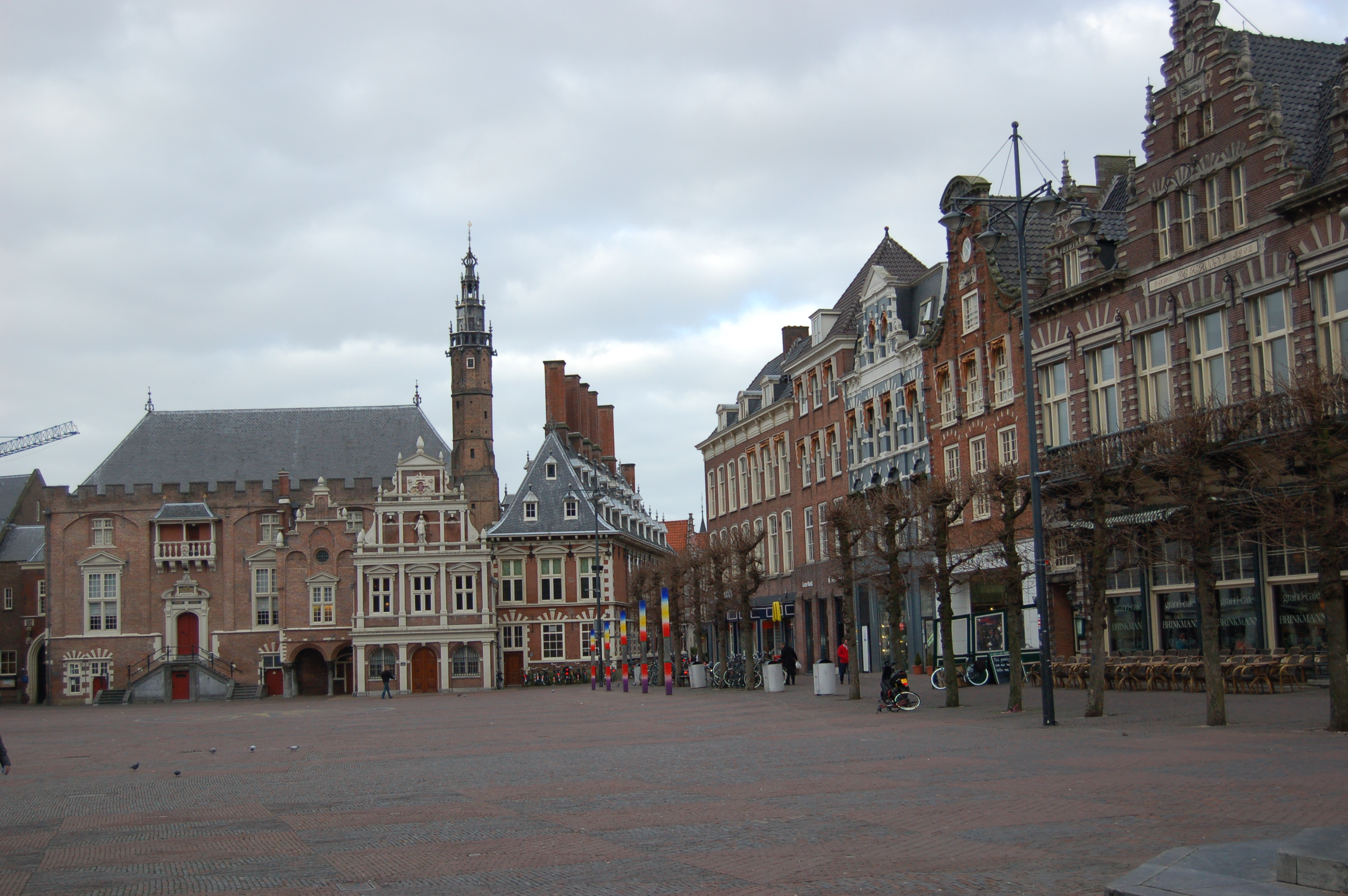 Grote Markt in Haarlem, with the city Hall in the back and the Brinkmann shopping center at the right.